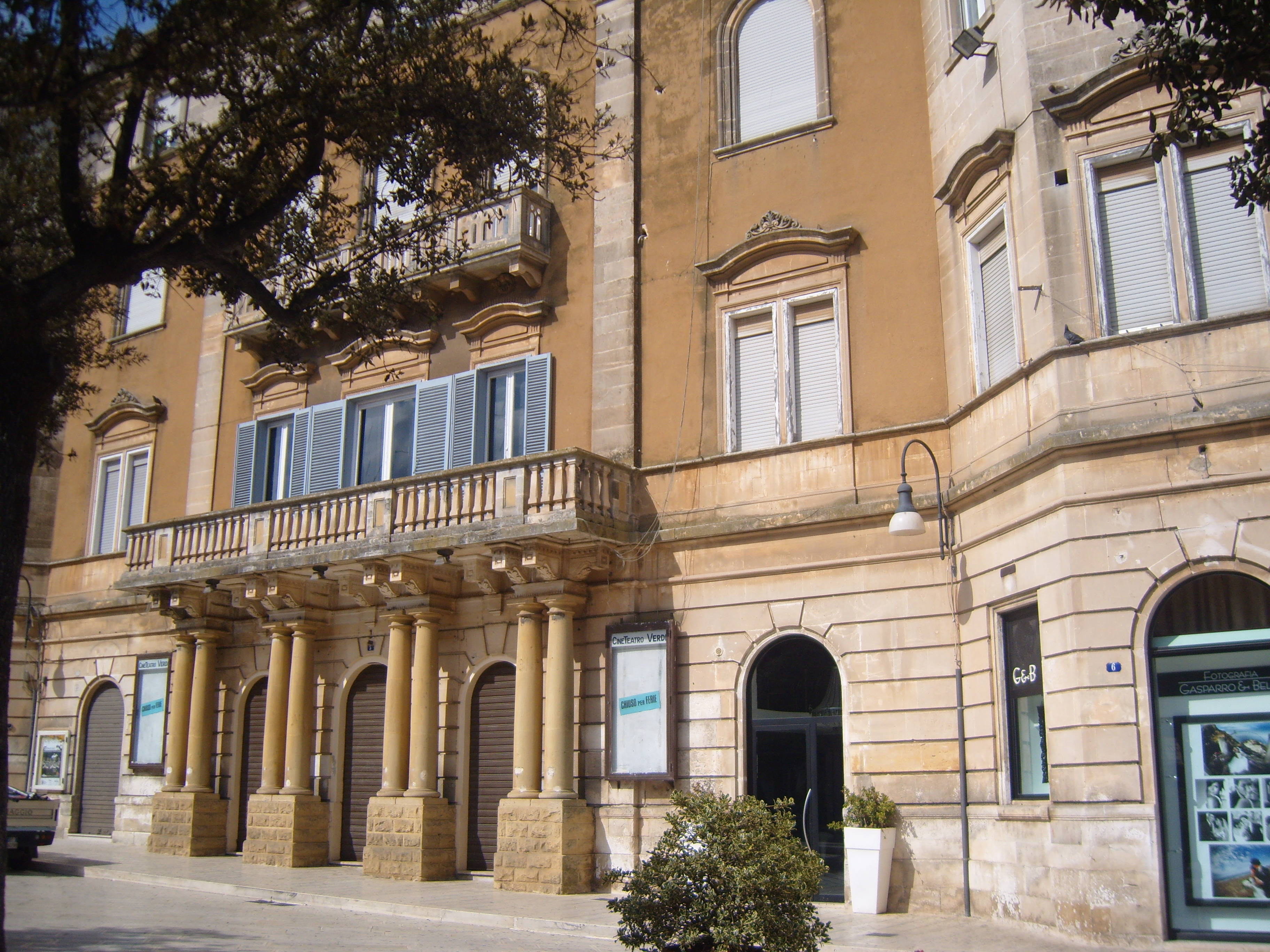 Verdi cine-theatre in piazza XX settembre. Martina Franca, Province of Taranto, Italy